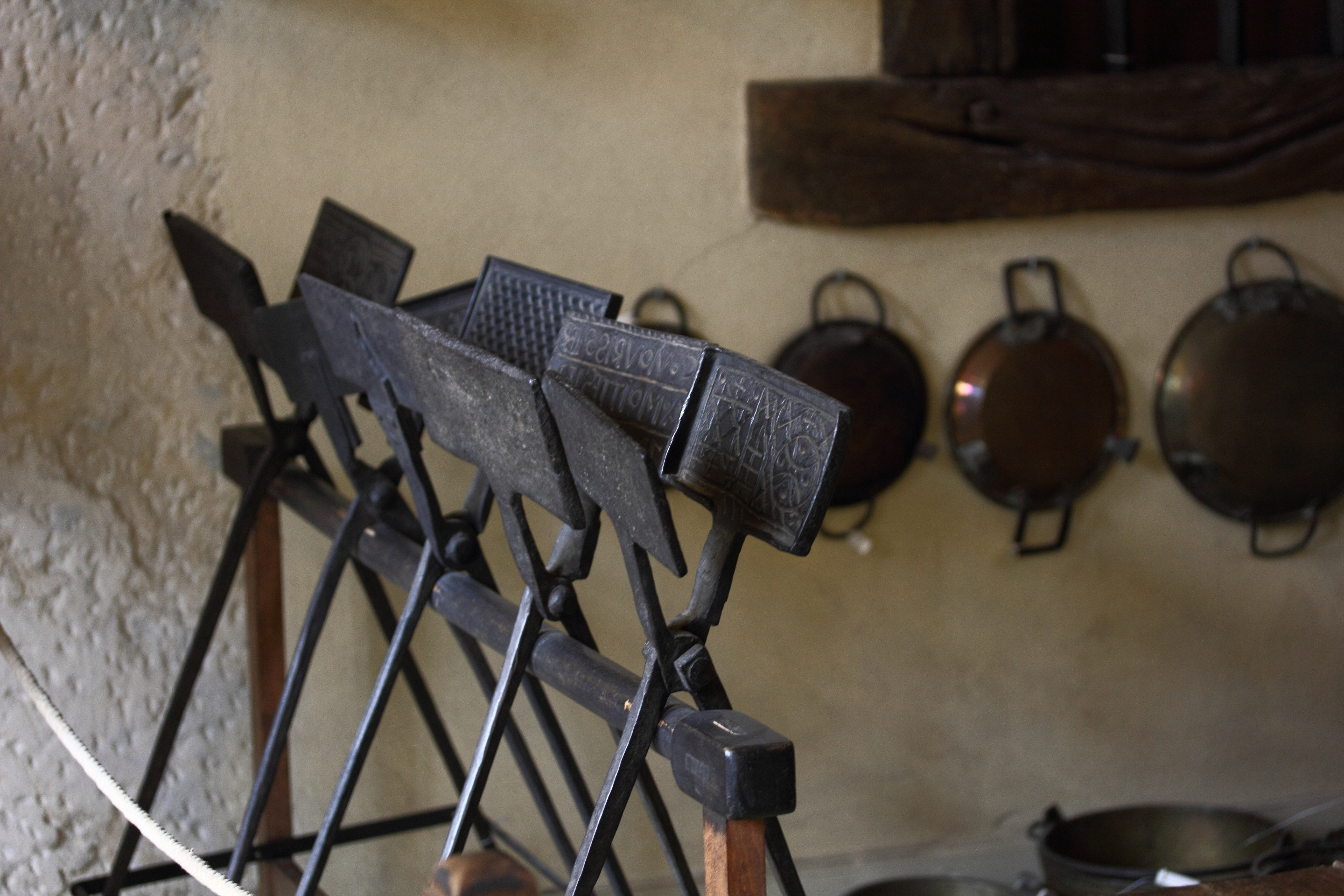 Waffle iron, Musée Lorrain (Popular Arts and Traditions Museum)